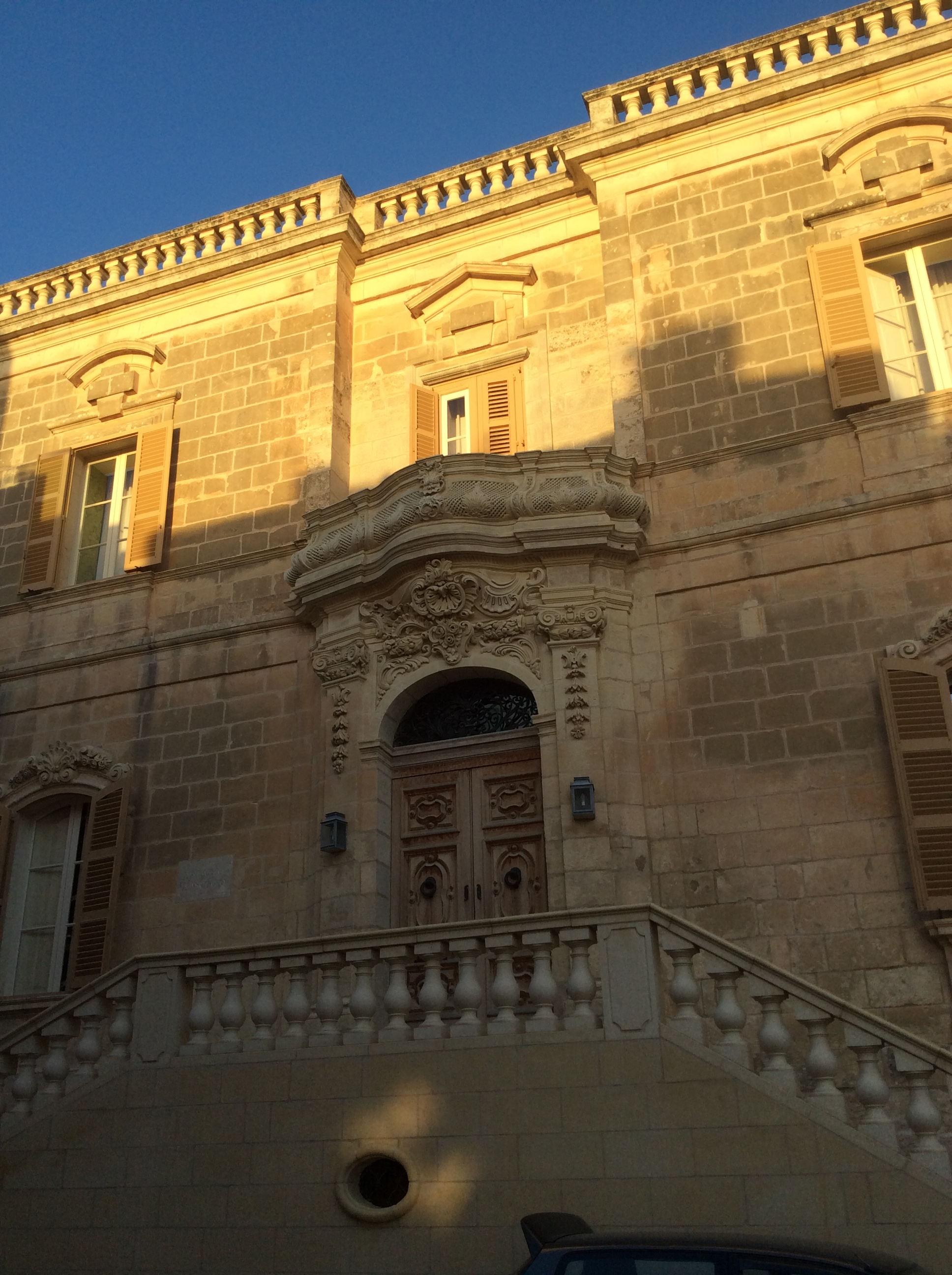 Palazzo Nasciaro Naxxar Palace old police station WWII shelter and hospital.jpeg